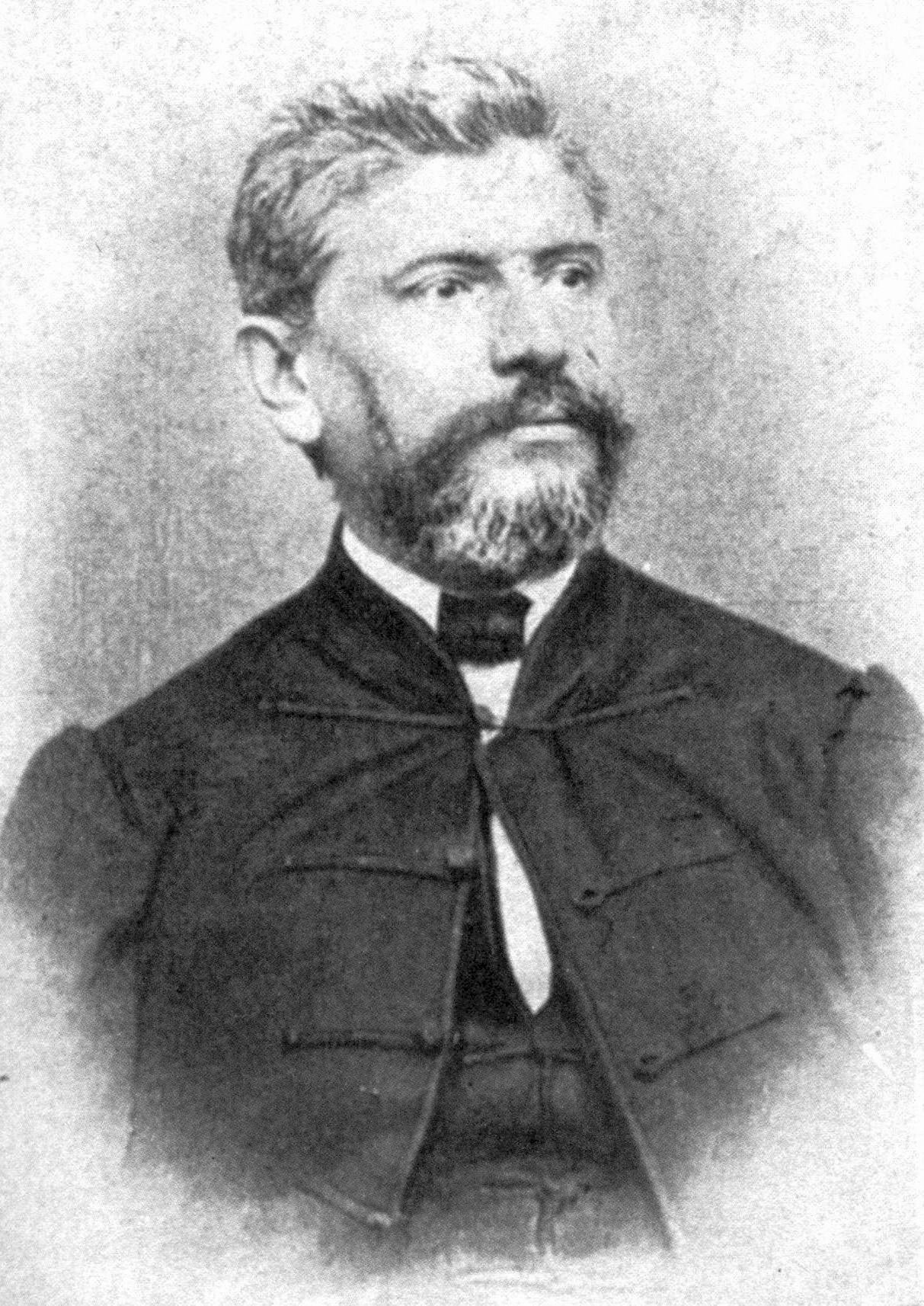 Croatian politician Ante Starčević